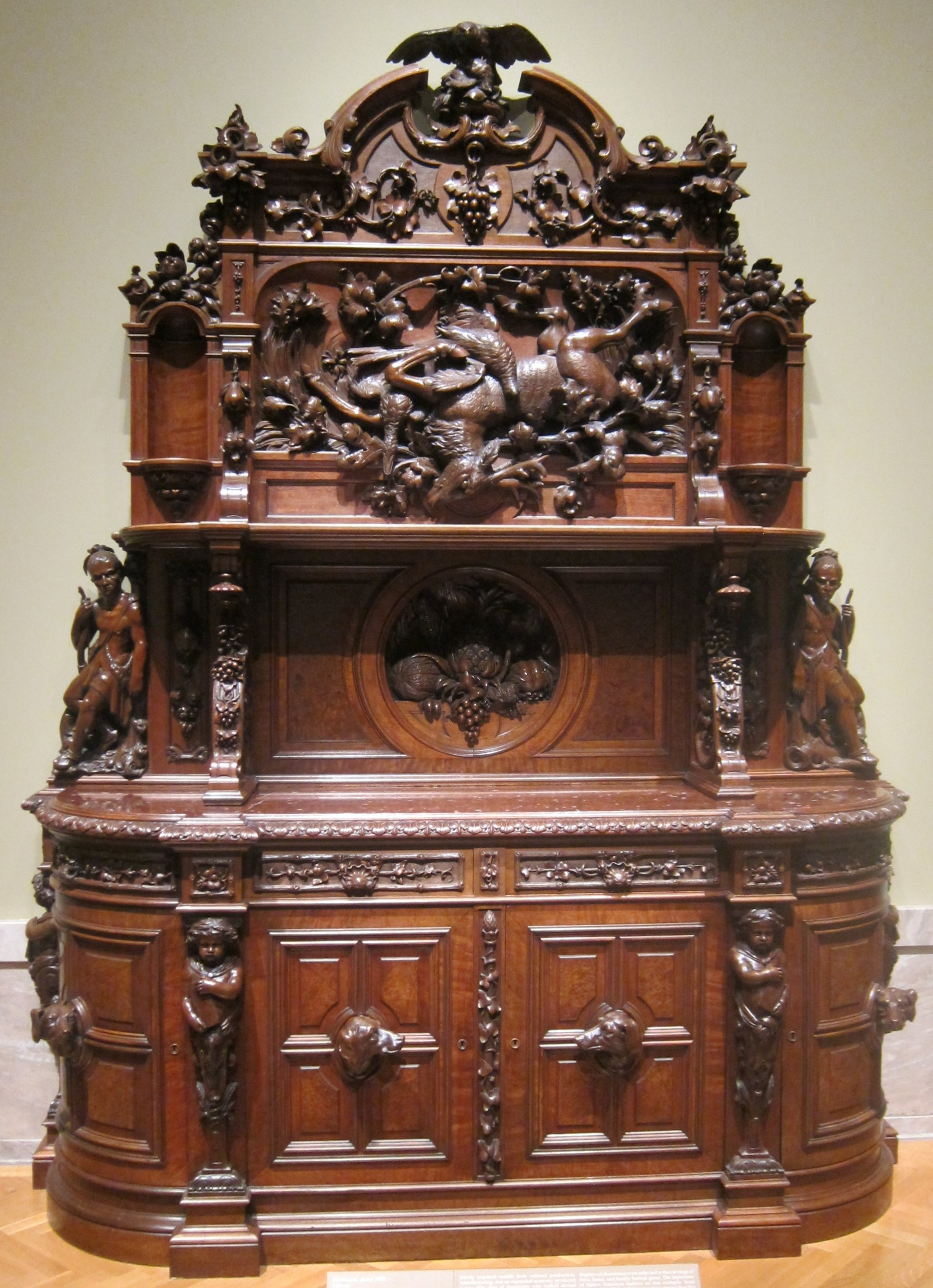 Walnut sideboard attributed to Joseph Alexis Bailly, c. 1855, Cleveland Museum of Art